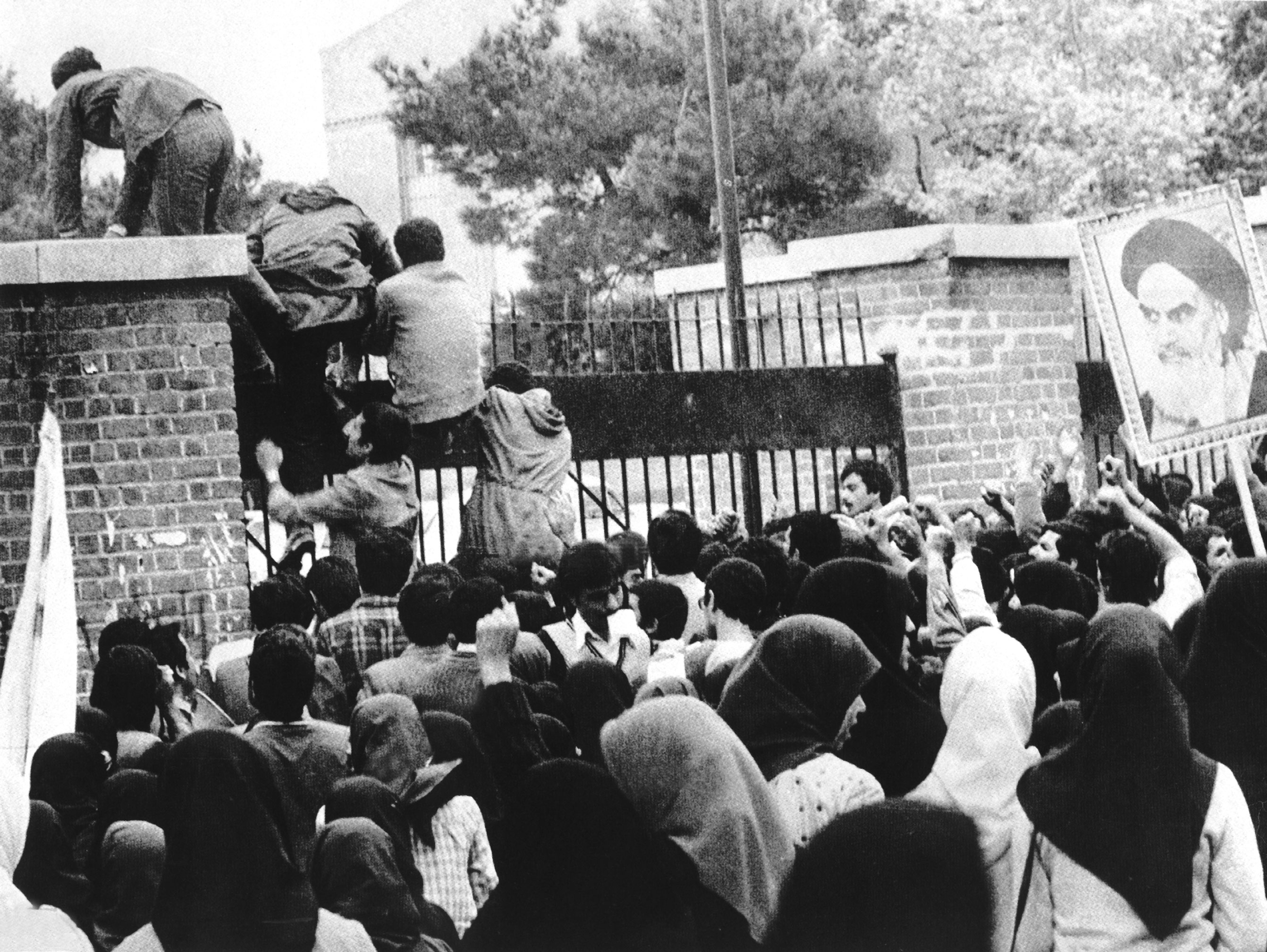 Iran hostage crisis - Iraninan students comes up U.S. embassy in Tehran